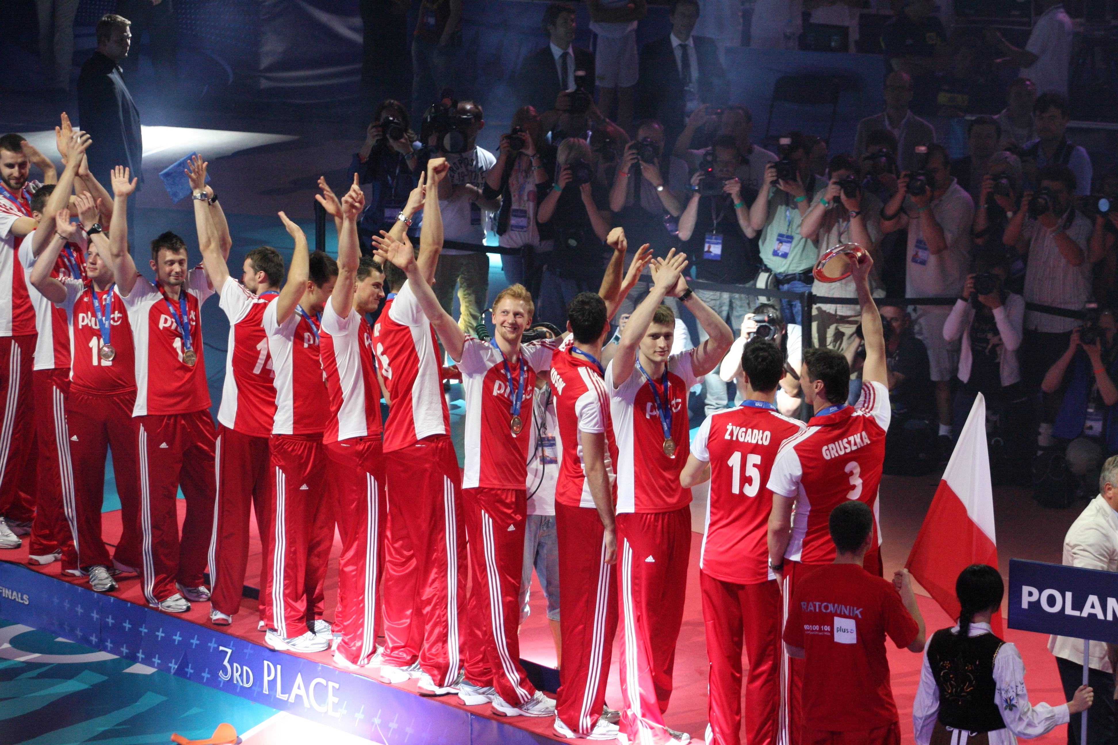 World League Final, Gdańsk 2011 Poland vs Argentina; 3 miejsce